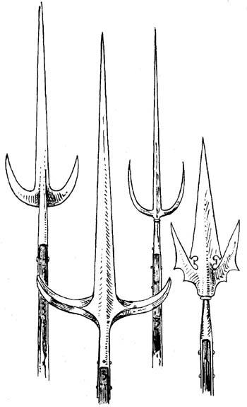 Tyupes of ranseurs, illustration from a book "Handbuch der Waffenkunde. Das Waffenwesen in seiner historischen Entwicklung vom Beginn des Mittelalters bis zum Ende des 18 Jahrhunderts" by W. Boeheim, , Leipzig, 1890